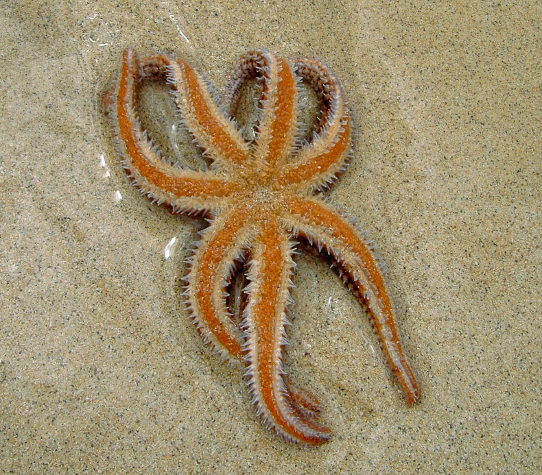 Starfish, photo taken at Fuerteventura